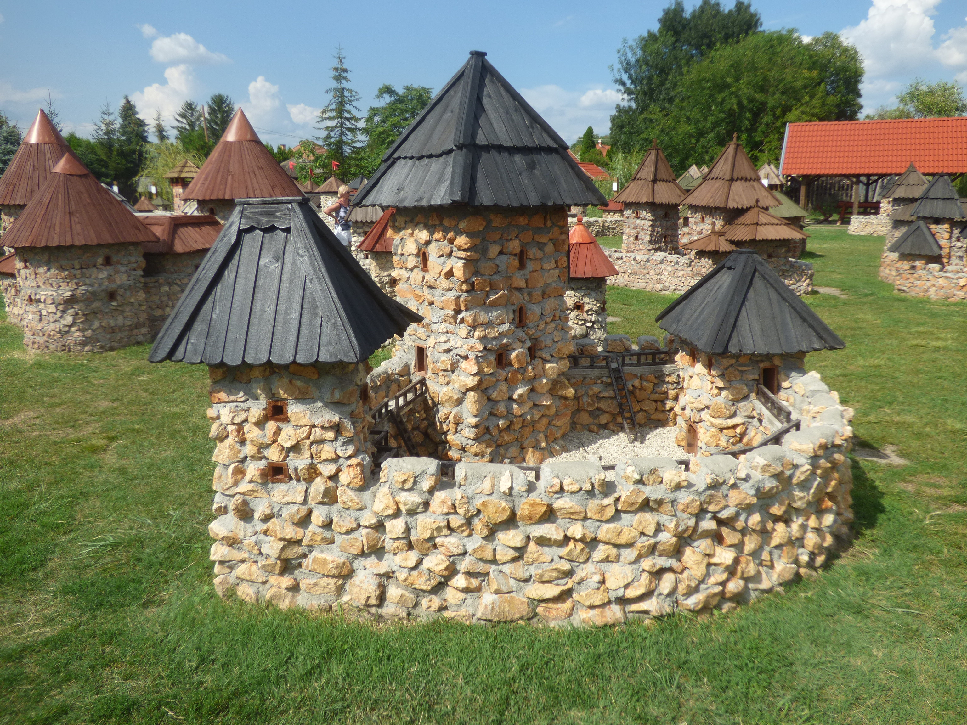 Tapolcsány várának makettje a dinnyési Várparkban